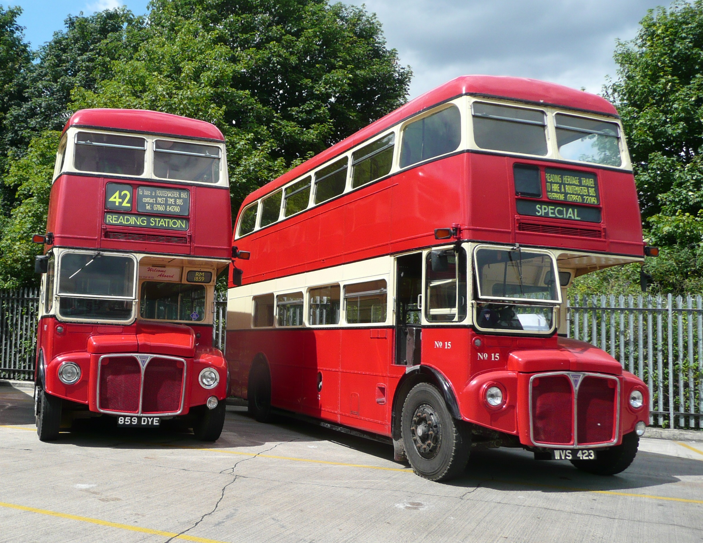 Two private hire Routemaster buses pictured in Reading, Berkshire, in July 2008. On the left is RM1859 (reg. 859 DYE) of Past Time Bus, while on the right is RM999 (reg. WVS 423) of Reading Heritage Travel. Both wear the colours and old fleetnumbers (No.17 and No.15) of their former owner, Reading based public transport operator Reading Mainline, having been withdrawn and sold by them in March 1998 (RM1859) and June 2000 (RM999) respectively.